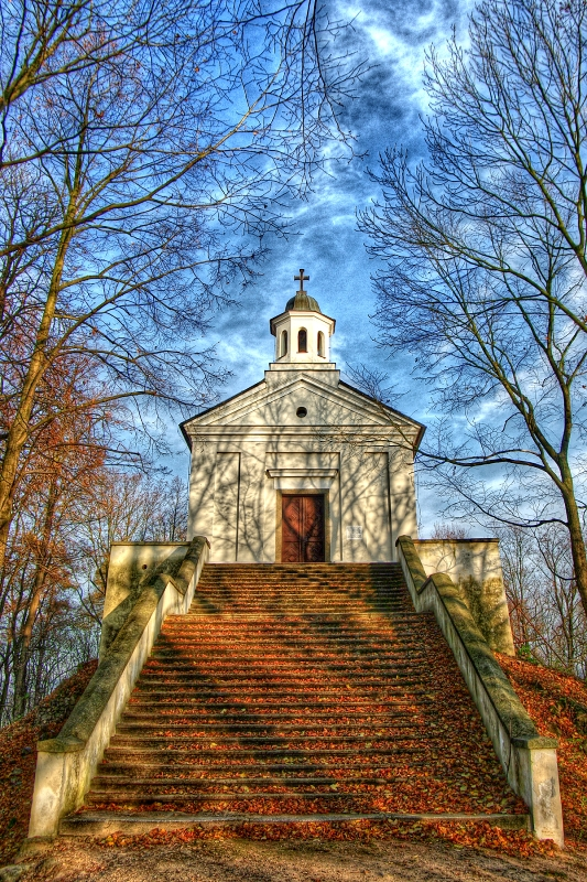 Chapel of the Virgin Mary in Mladá Vožice, with autumn colors.